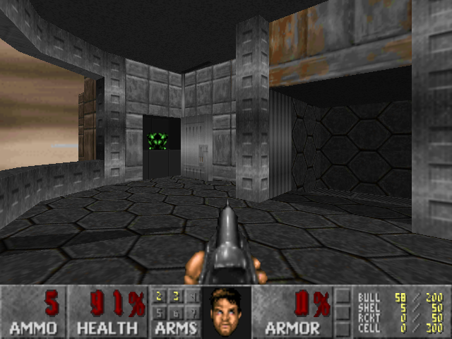 FreeDoom screenshot, level 1 (version 0.6.4)